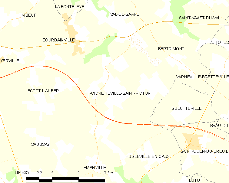 Map of French municipality Ancretiéville-Saint-Victor